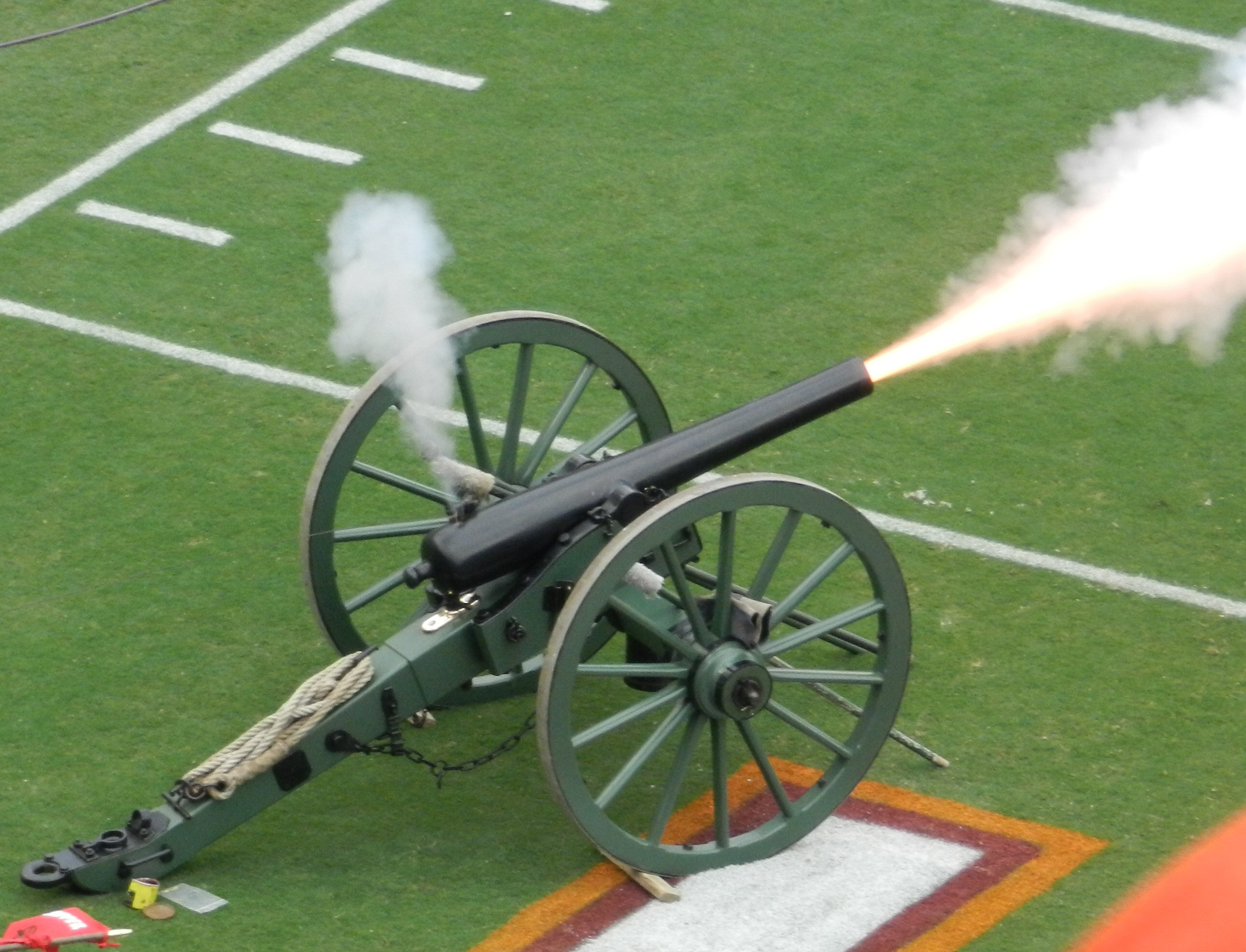 Skipper firing during the pre-game ceremonies of Virginia Tech's 2012 game against Austin Peay.